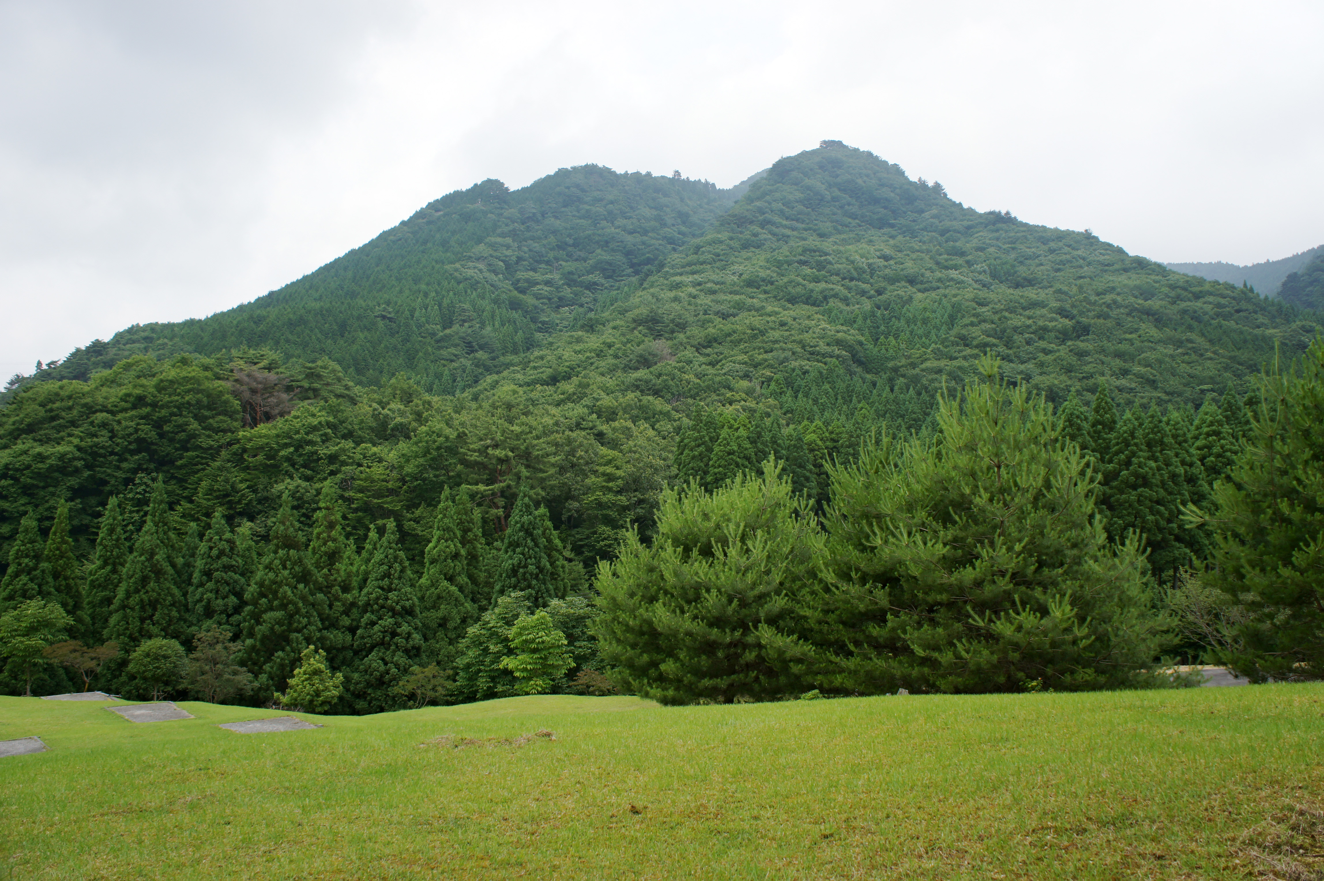 Mount Seppiko view from Senjo-daira in Yasutomi Green Station Shikagatsubo, Himeji, Hyogo prefecture, Japan.